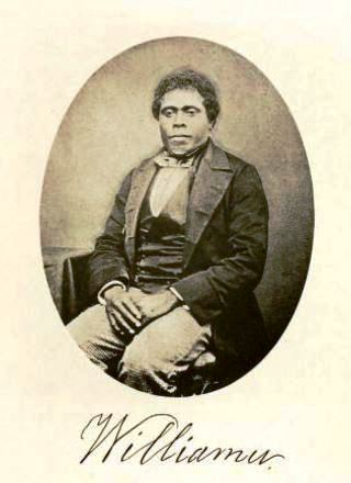 Photo of Williamu on visit to Britain from his South Sea island in the New Hebrides